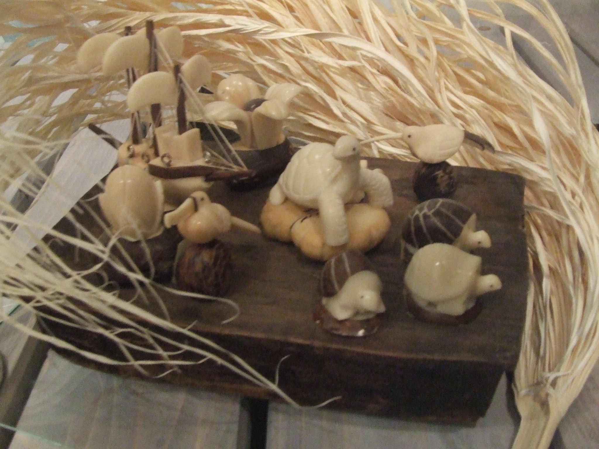 Figures made from nuts of the palms which grow on the coastest. The nuts harden due to the sun's wormth and resemble genuine ivory. This material is used by local artist to make figures and jewellery. Spanish colonisers used it for making buttons, umbrella handles, walking sticks, pipes.